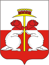 Donskoi (Tula oblast), coat of arms